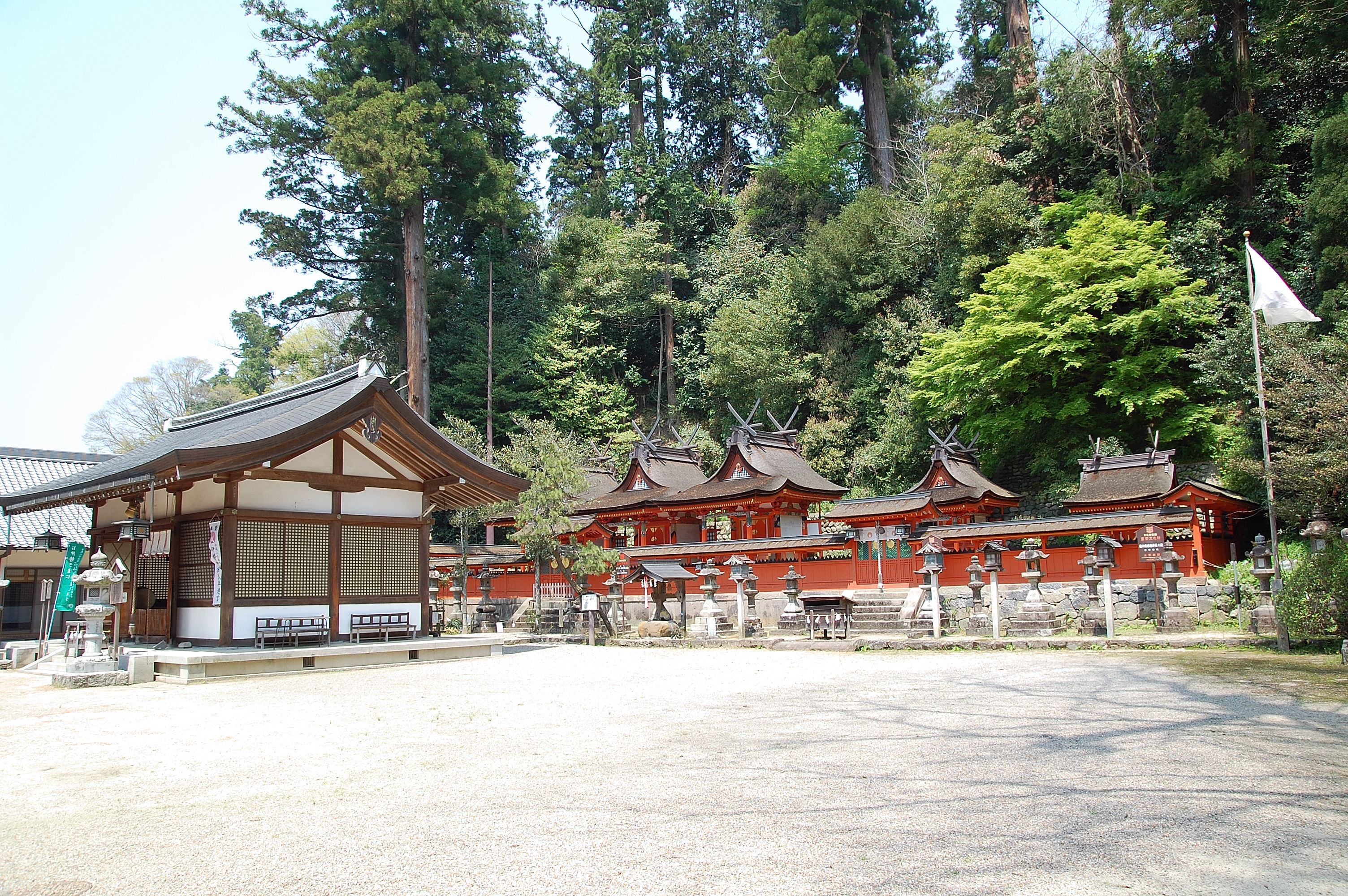 Japanese[edit] ファイルの概要[edit] Description